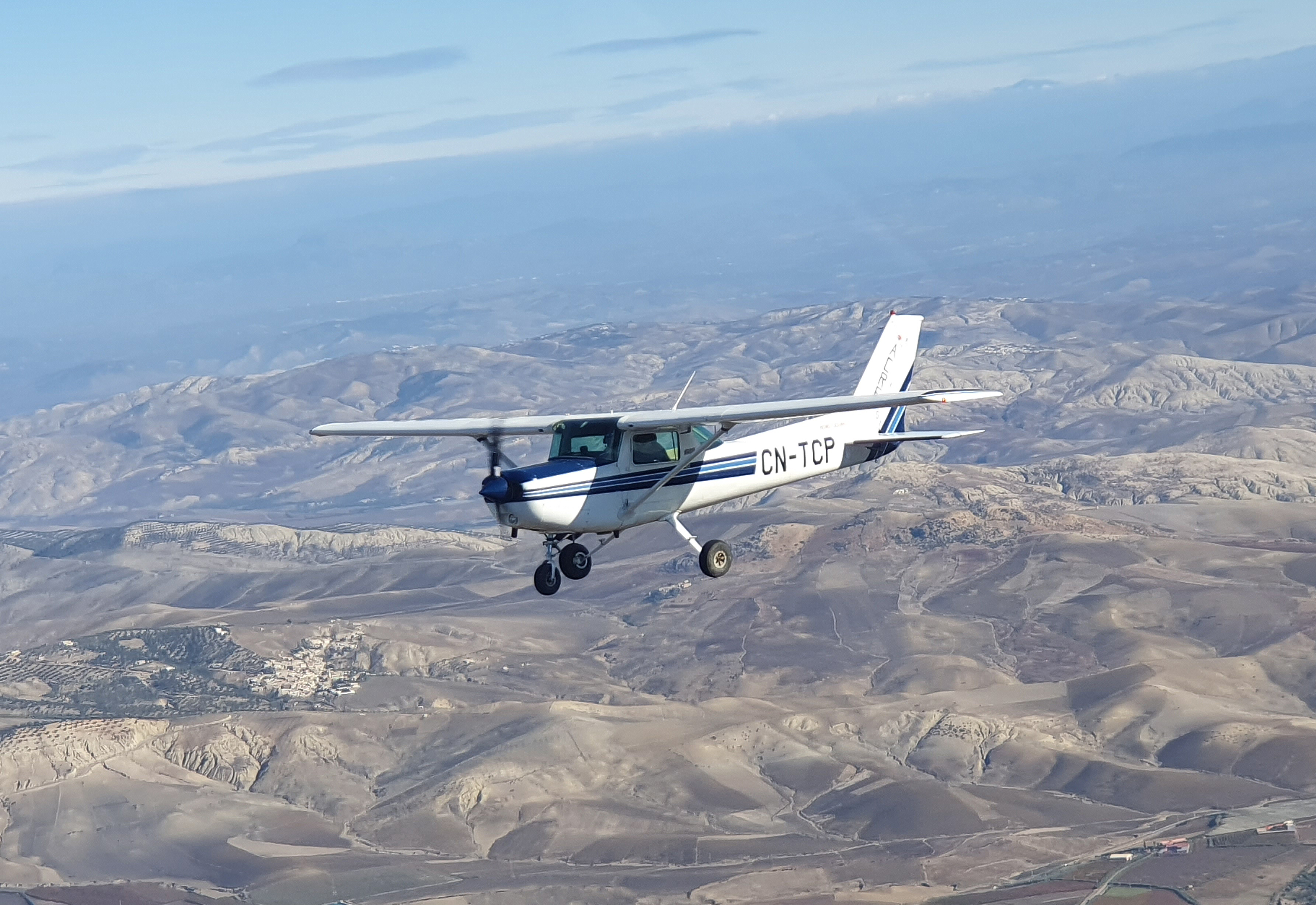 A Cessna 152, a widely used aircraft for pilot training Flying in Morocco over the Atlas Mountains Range This is an image with the theme "Africa on the Move or Transport" from: Morocco